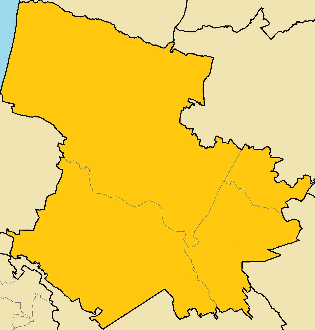 Morphou Municipality with quarters (de jure).